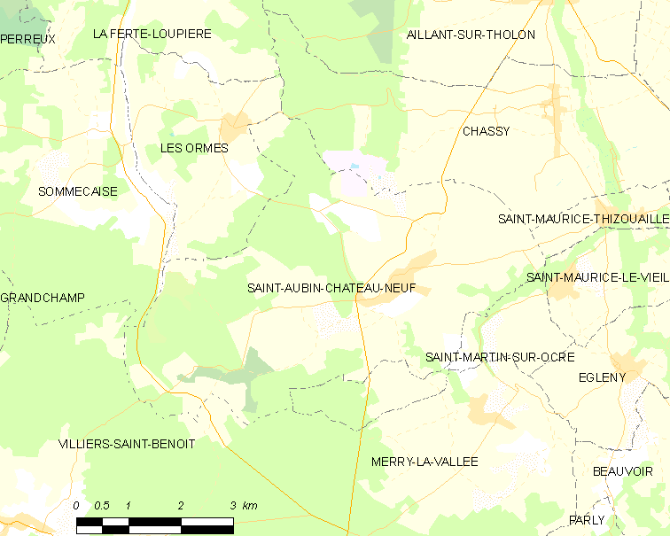 Map of French municipality Saint-Aubin-Château-Neuf